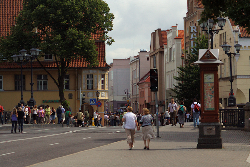 Old town of Klaipėda life.